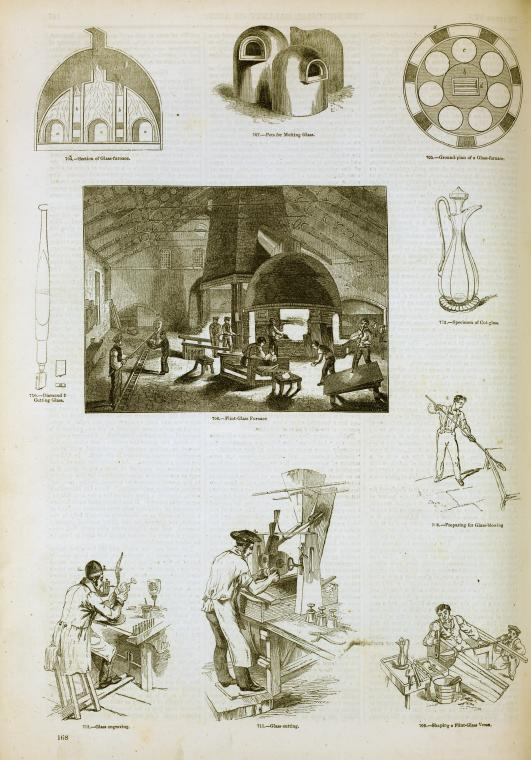 From Charles Knight's Pictorial Gallery of Arts, England, 1858. Glassworking industry in England in 1858.